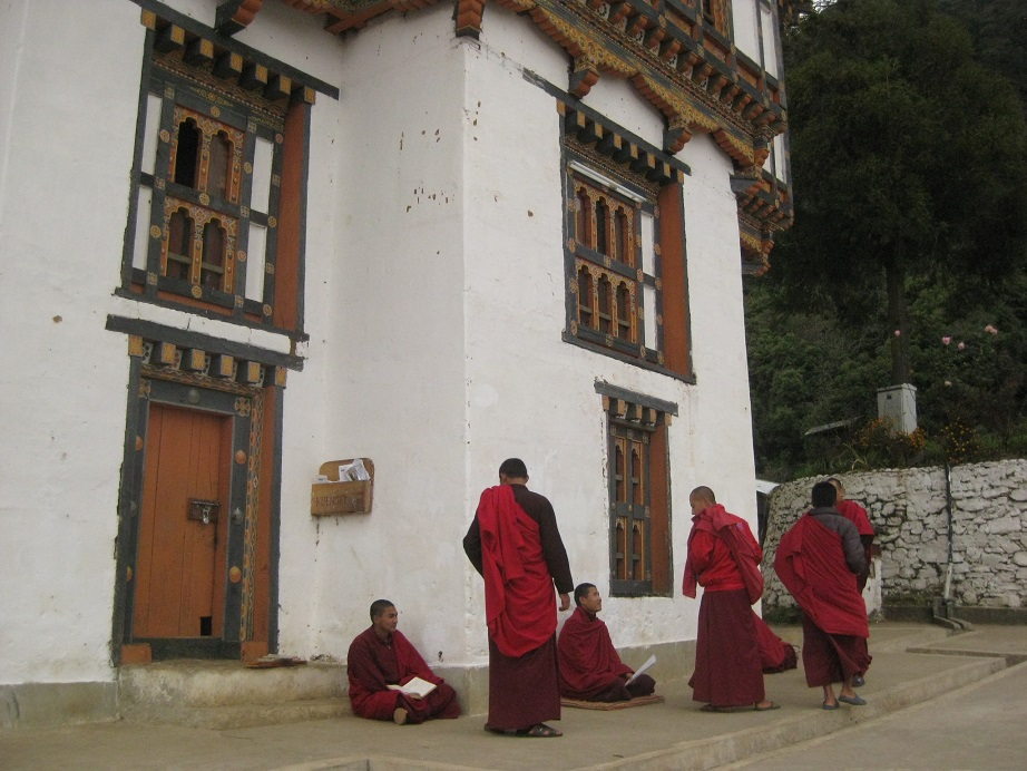 photo of senior students practice debating of Buddhist philosophy at Nalanda Buddhist Institute, Punakha Dz Bhutan 2013. Taken in main courtyard outside Sonam Gatshel temple.